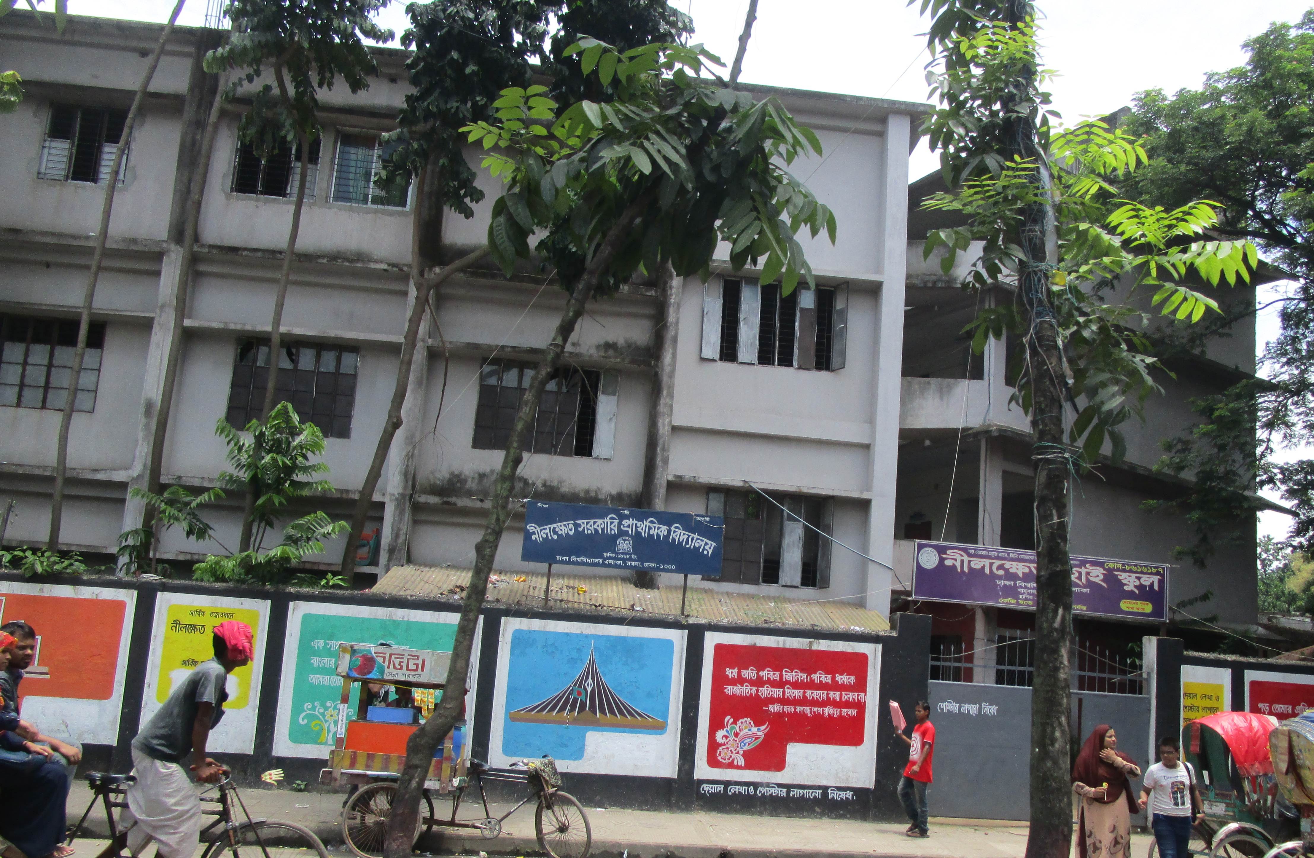 Nilkhet High School